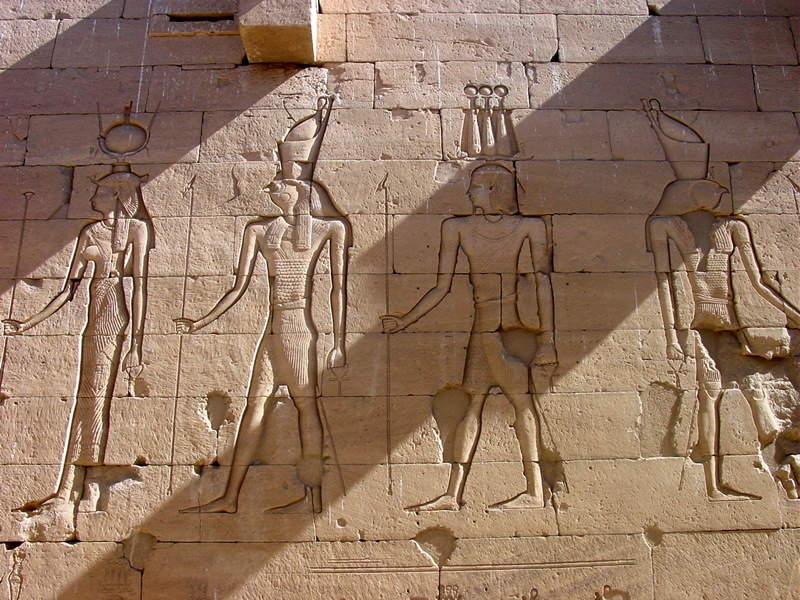 A carved relief of the pharaoh and Egypt's traditional gods from the walls of the Kalabsha temple in Nubia.